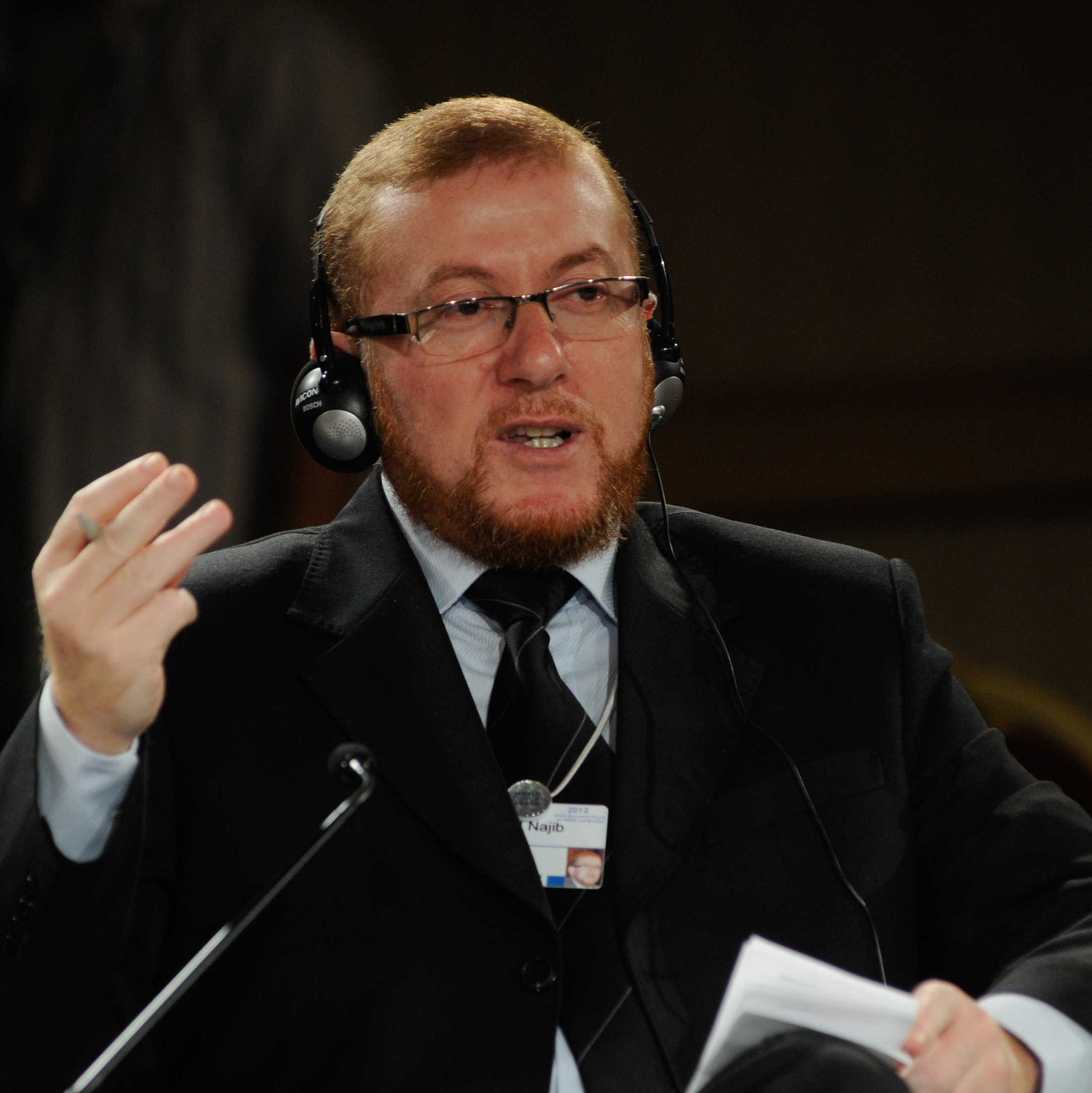 ISTANBUL, TURKEY, 6 June 2012 - Mohamed Najib Boulif, Minister of General Affairs and Governance of Morocco, speaks at the World Economic Forum on the Middle East, North Africa and Eurasia in Istanbul, 4-6 June 2012. Copyright World Economic Forum ( by Norbert Schiller